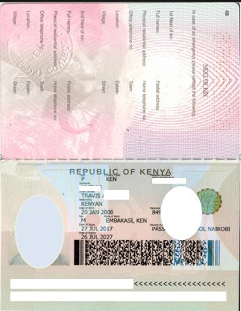 ordinary Kenyan passport